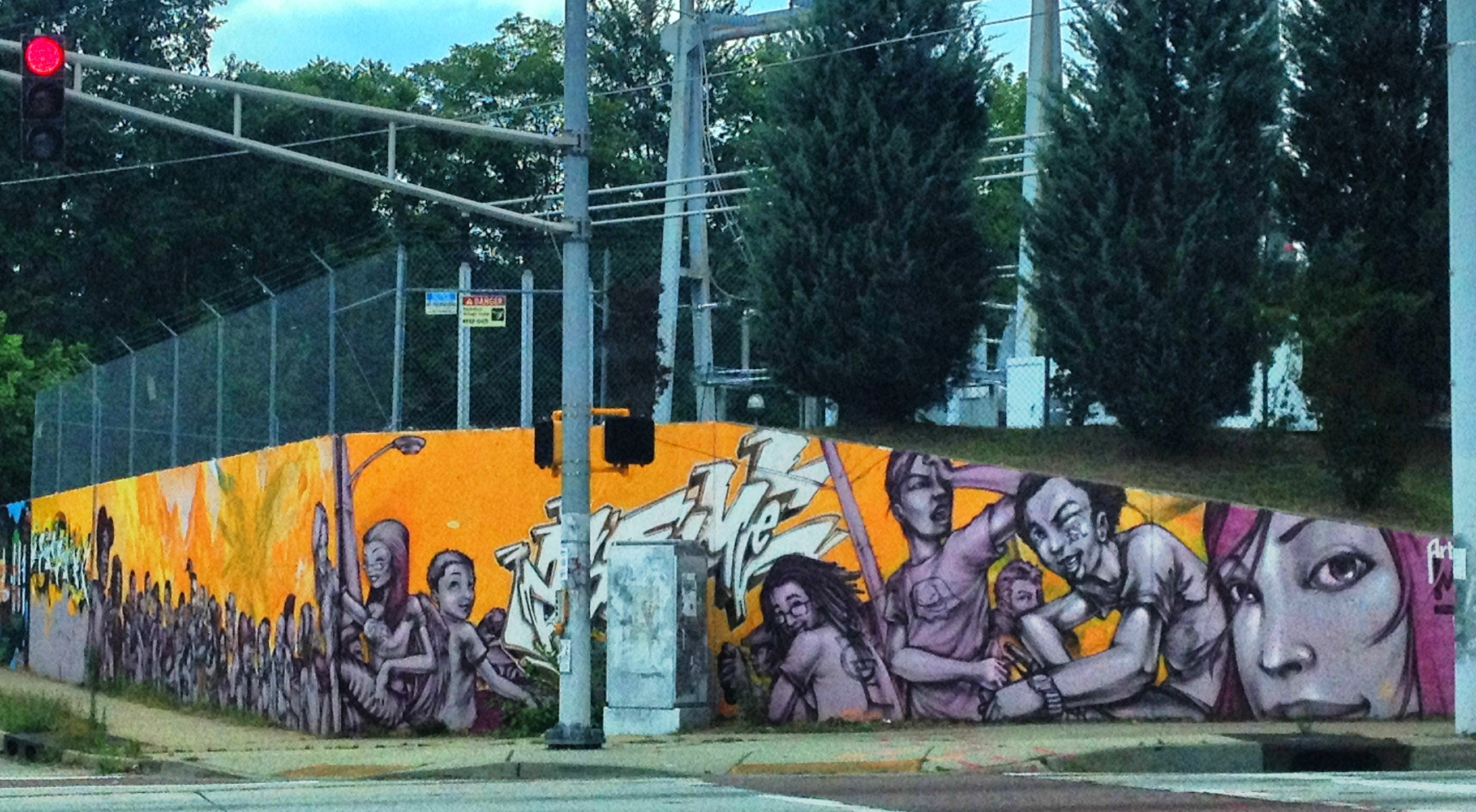 Street art in Reynoldstown, Moreland Ave. across from Edgewood Shopping Center